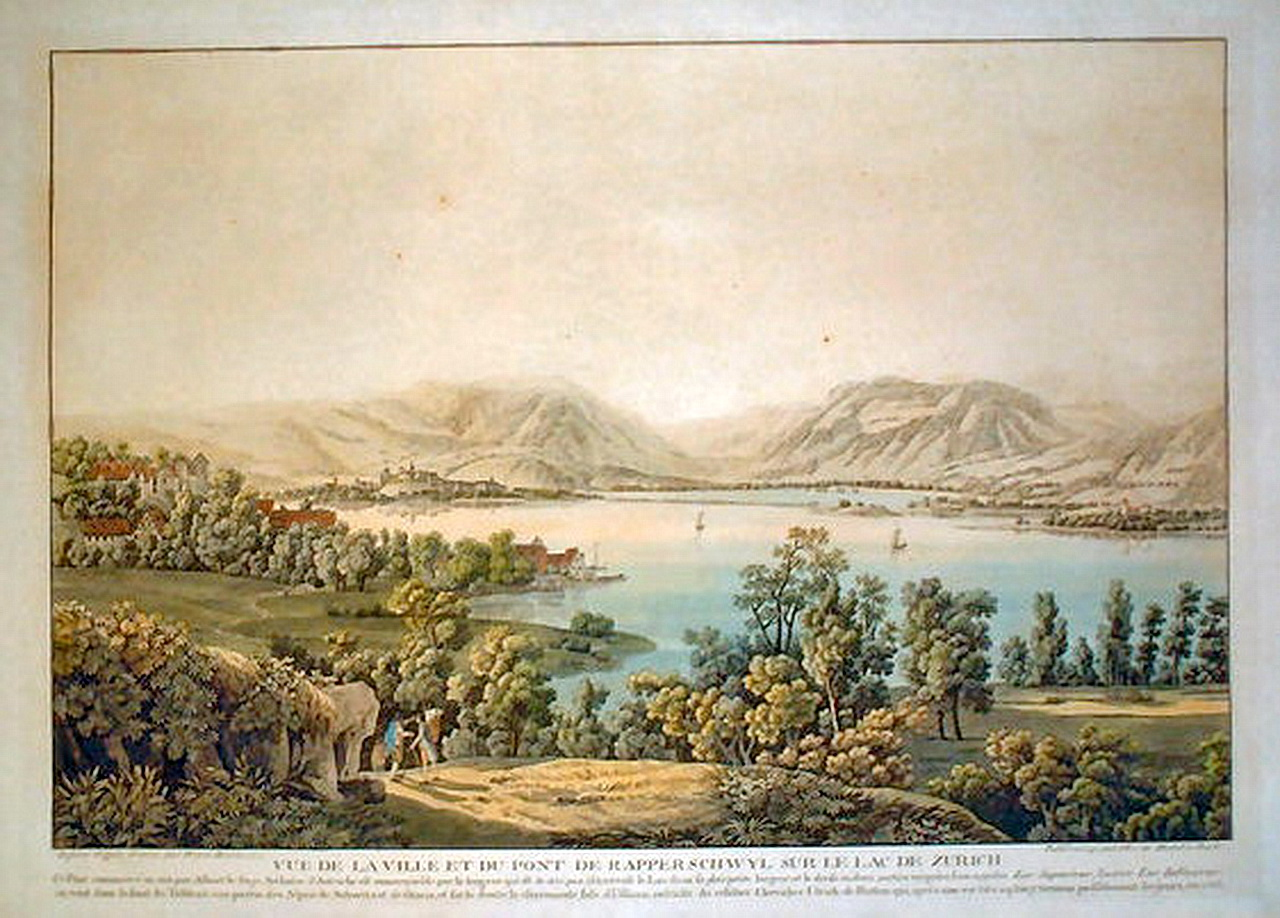 Rapperswil (SG) : Wooden bridge (Pilgrim's bridge) Rapperswil-Hurden, crossing Lake Zurich. Kempraten village in foreground, Pfäffikon (SZ) to the right side.